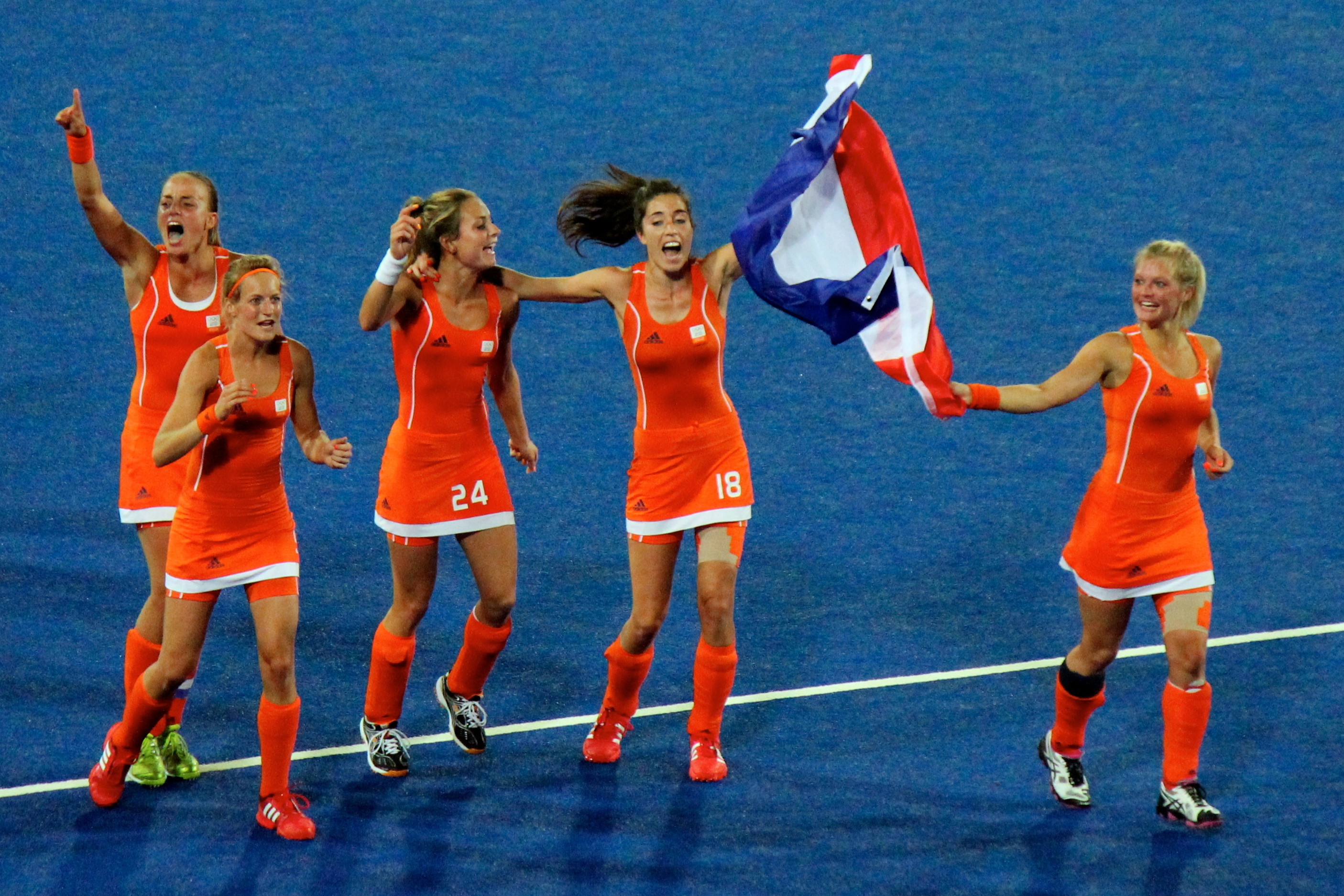 The Netherlands womens field hockey team celebrates after winning the gold medal at the 2012 Summer Olympics in London. From left to right: Maartje Paumen, Maartje Goderie, Eva de Goede, Naomi van As, and Sophie Polkamp.